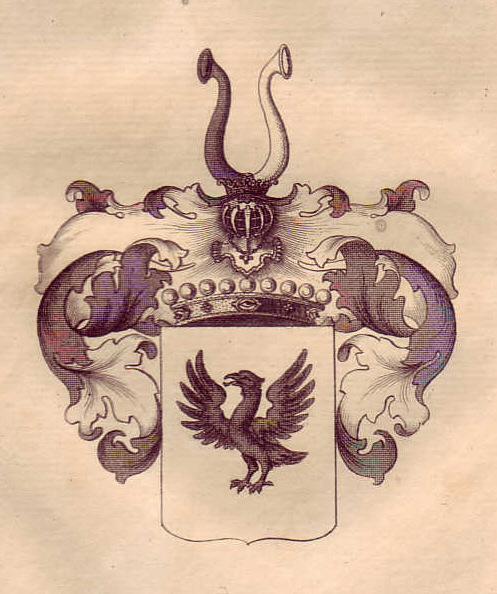 Coat of arms of the counts of Helmstatt (Germany)